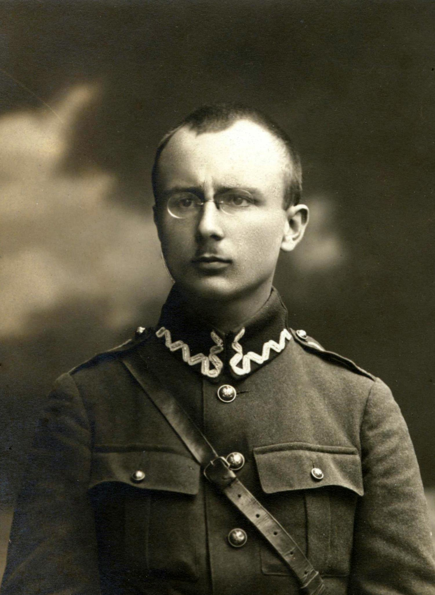 Stanisław Pieńkowski (1900-1989) - photo portrait, picture of ca 1920